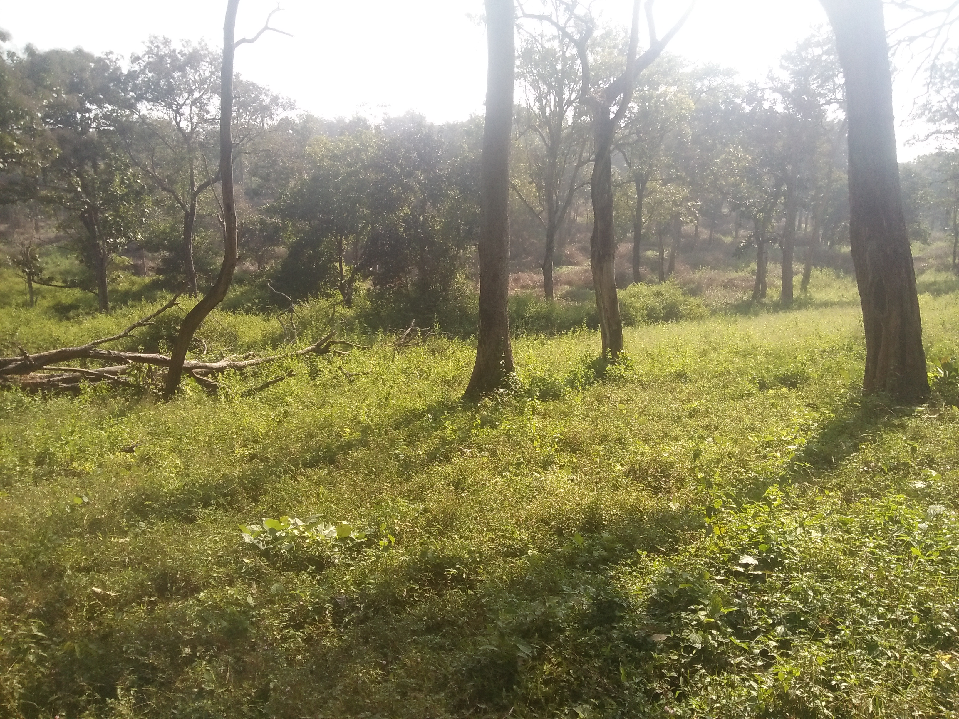 Forests